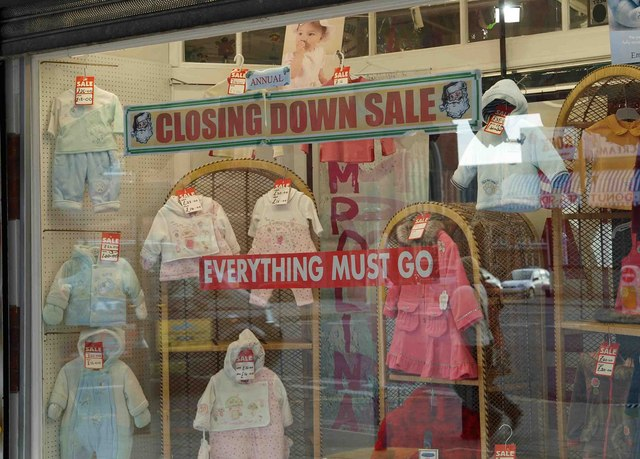 Annual? closing down sale